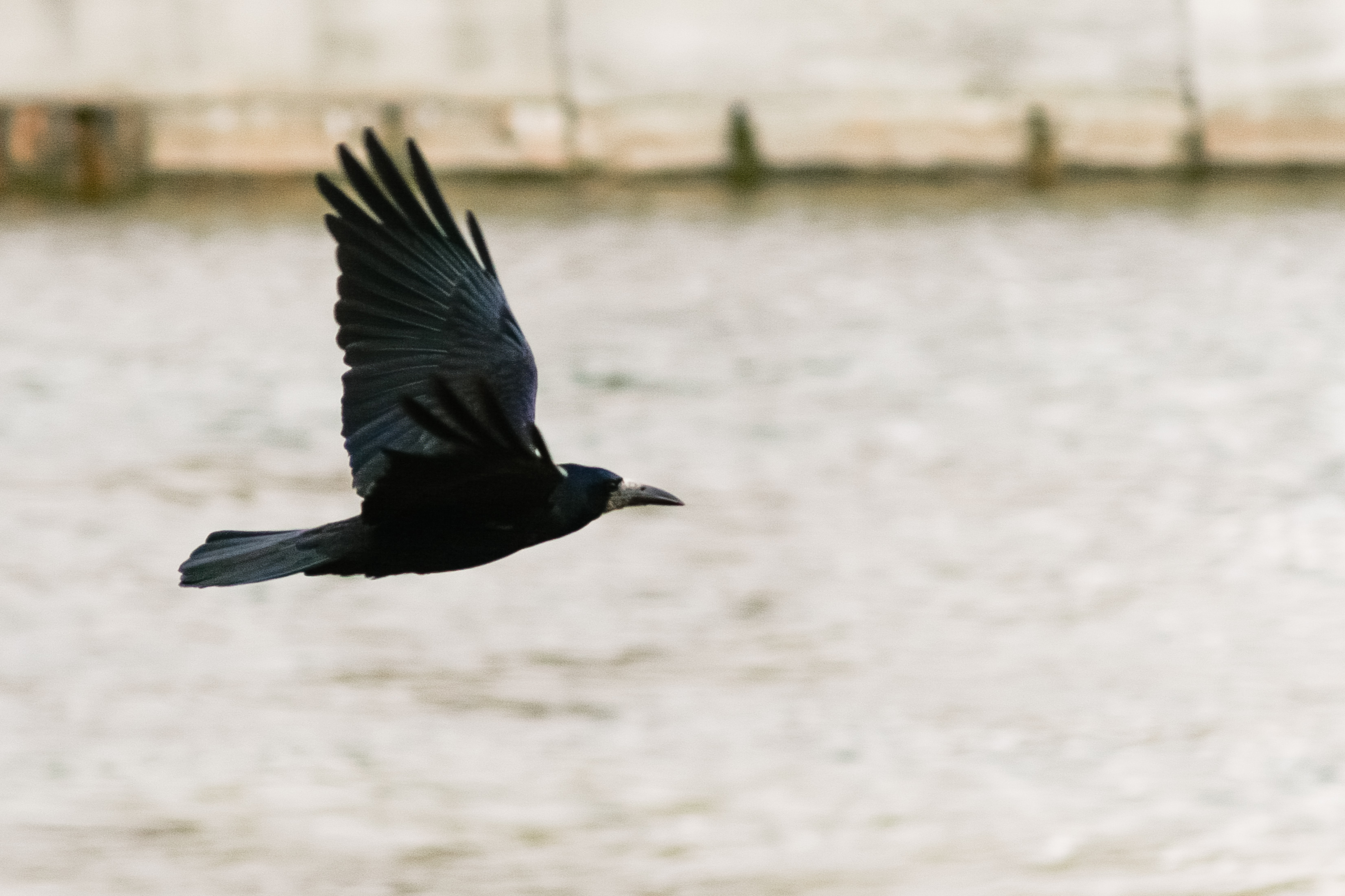 Crow